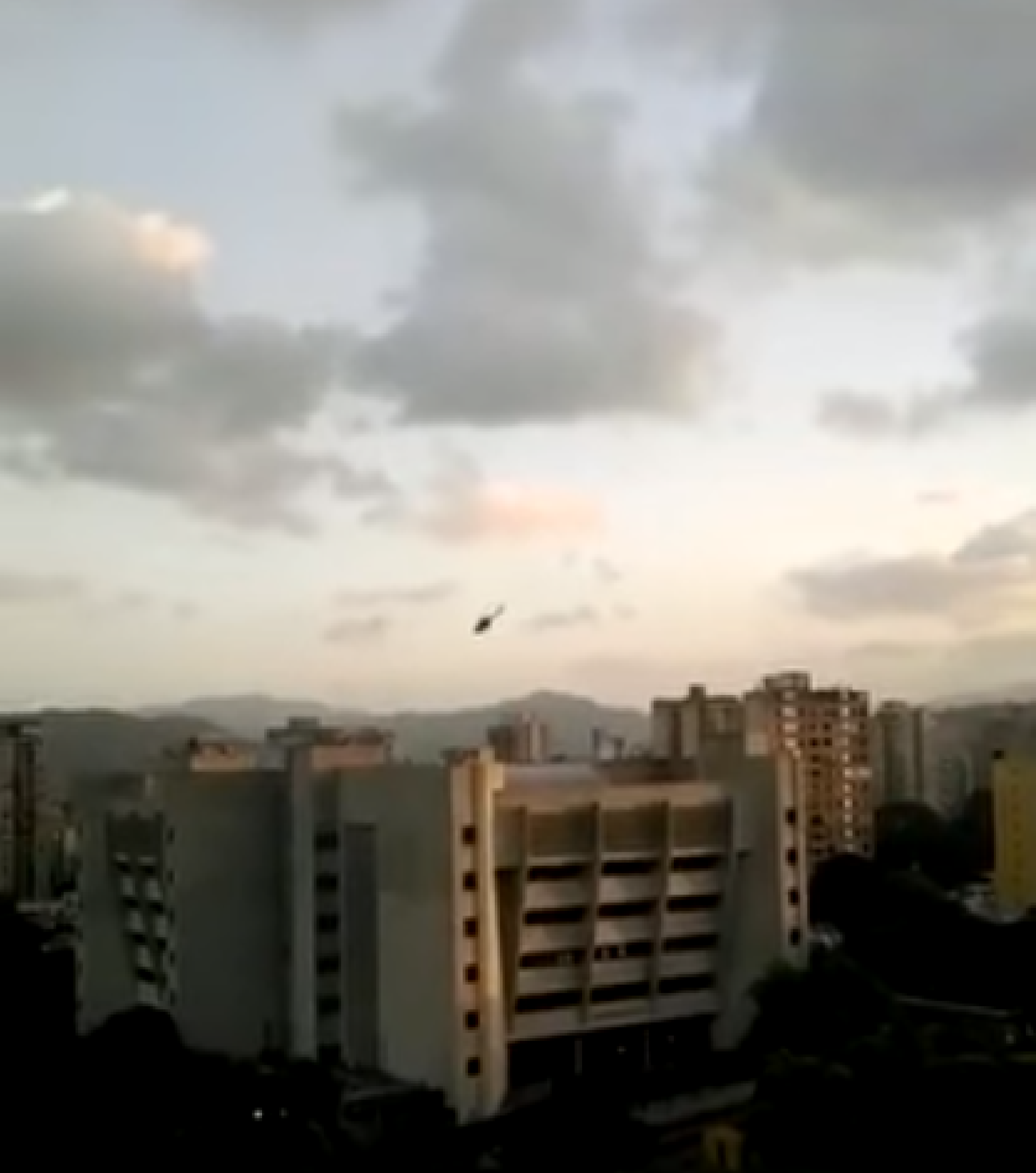 Attack on the Supreme Court of Justice of Venezuela in 2017 by a police dissident group.